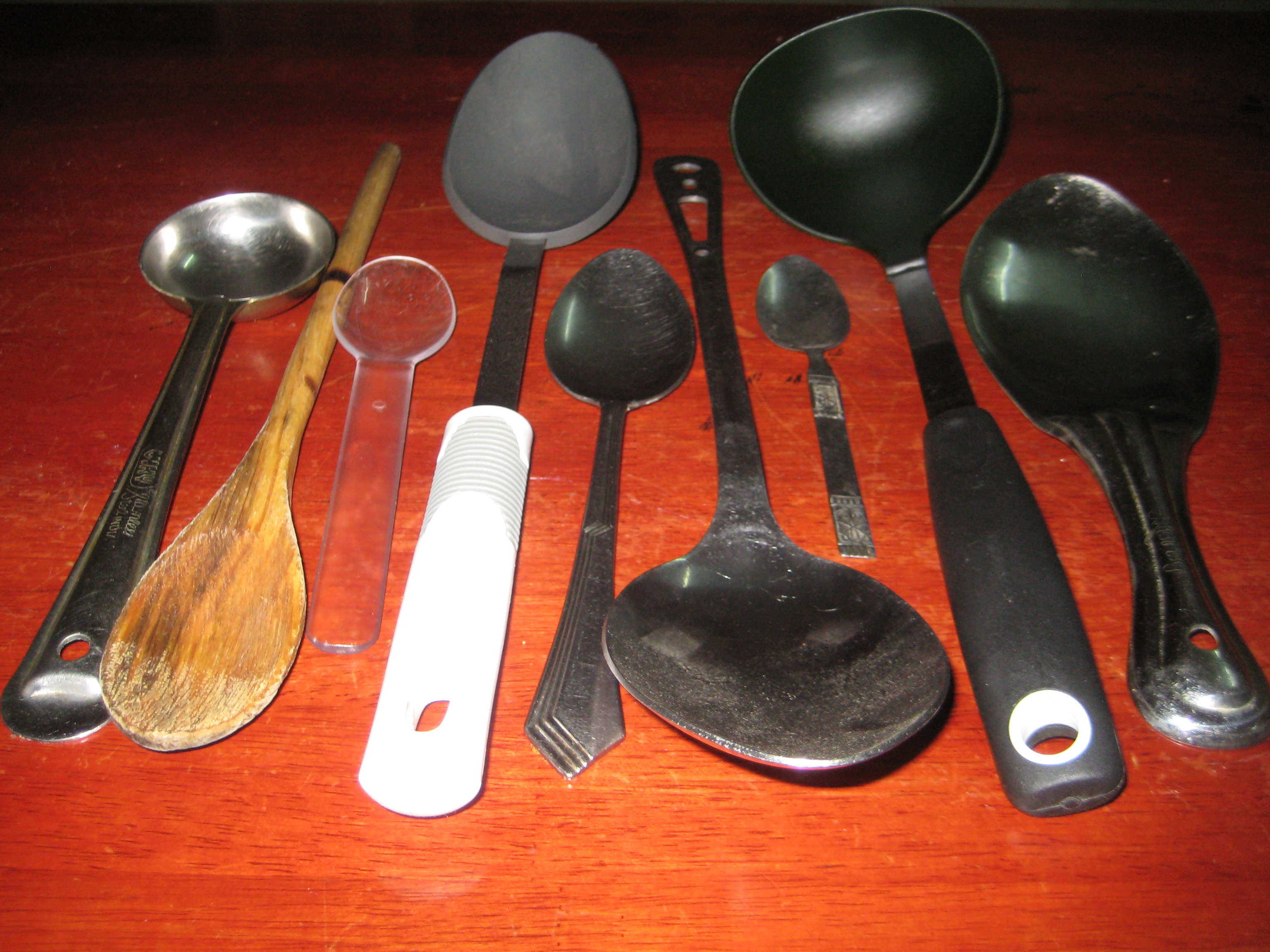 Spoons